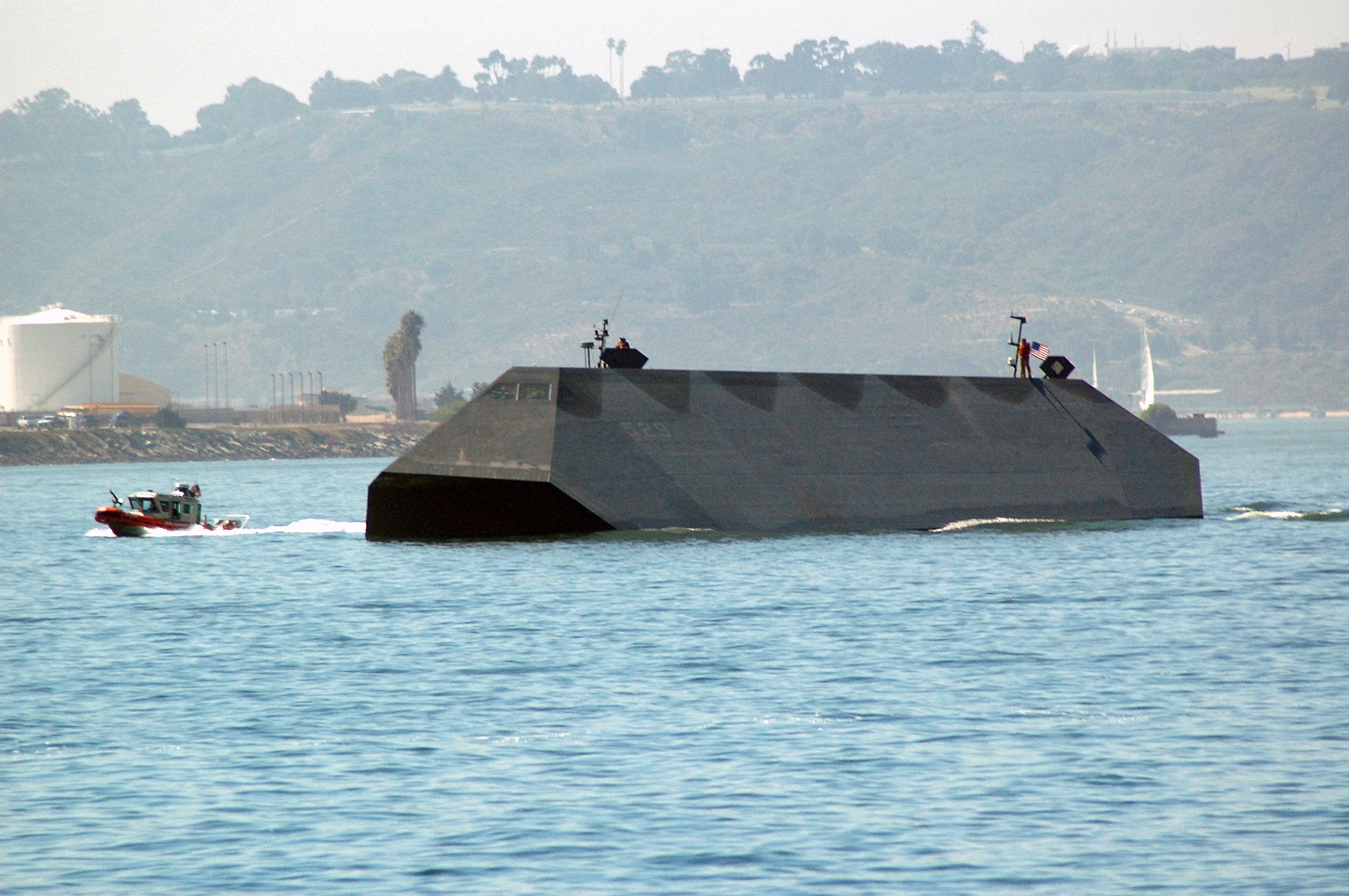 The Navy test craft, Sea Shadow, performs in the "Sea and Air Parade" held as part of Fleet Week San Diego 2005. Sea Shadow was developed under a combined Navy, Lockheed Martin Missiles and Space Company Program. Its purpose is to explore a variety of new technologies for surface ships. These include ship control, structures and automation for reduced manning sea-keeping and signature control. The program was initiated in the mid 1980's. Fleet Week San Diego is a three-week tribute to Southern California-area military members and their families.